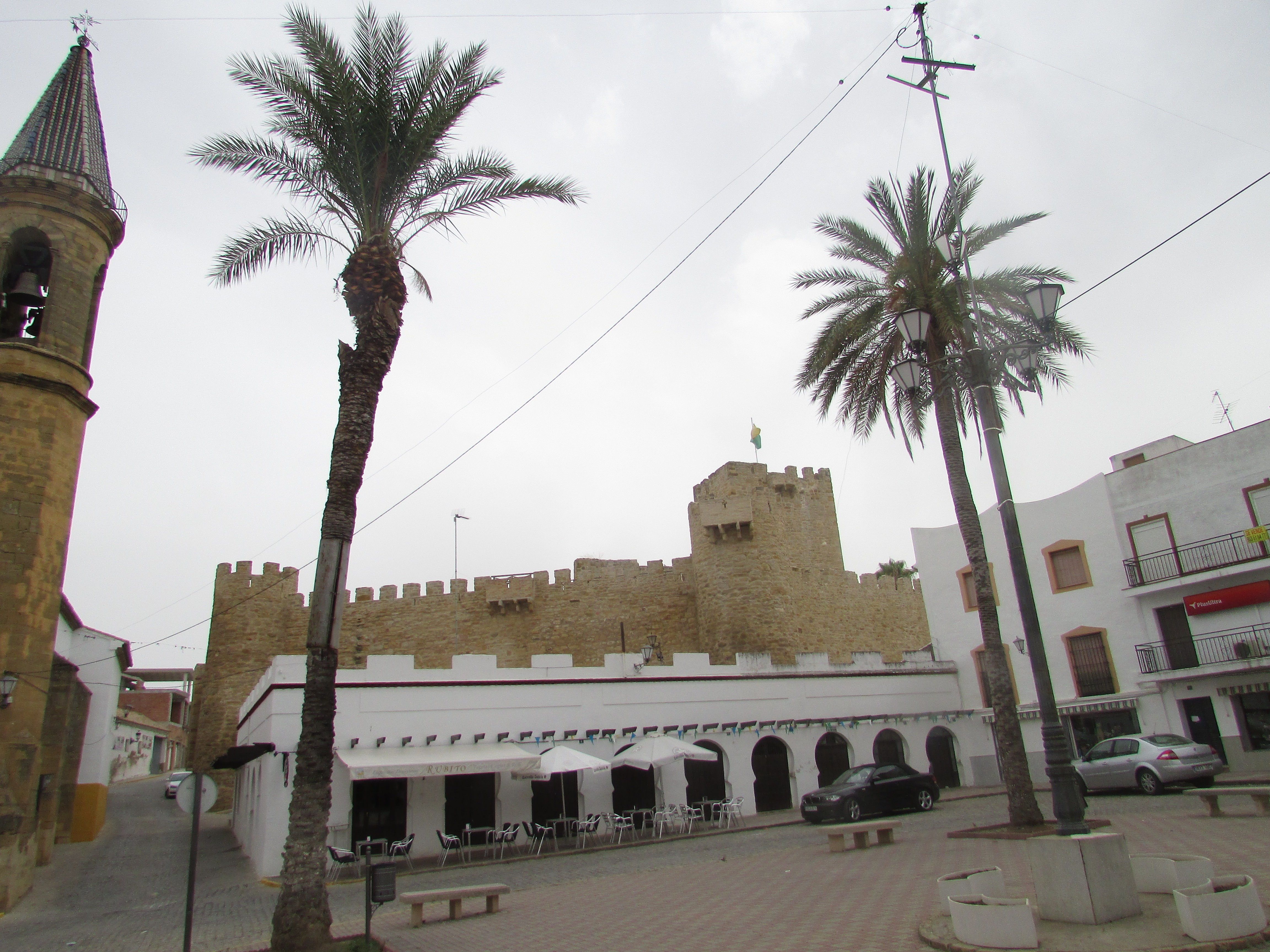 Looking east across the Plaza de la Constitución towards the Castle of Lopera.